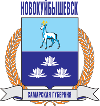 Novokuybyshevsk (Samara oblast), coat of arms